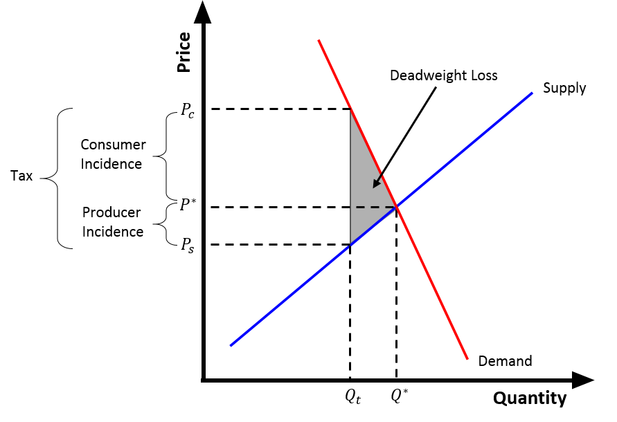 A graph of a tax wedge with an inelastic demand curve. This graph demonstrates that in this case, the consumer will bear more of the tax.